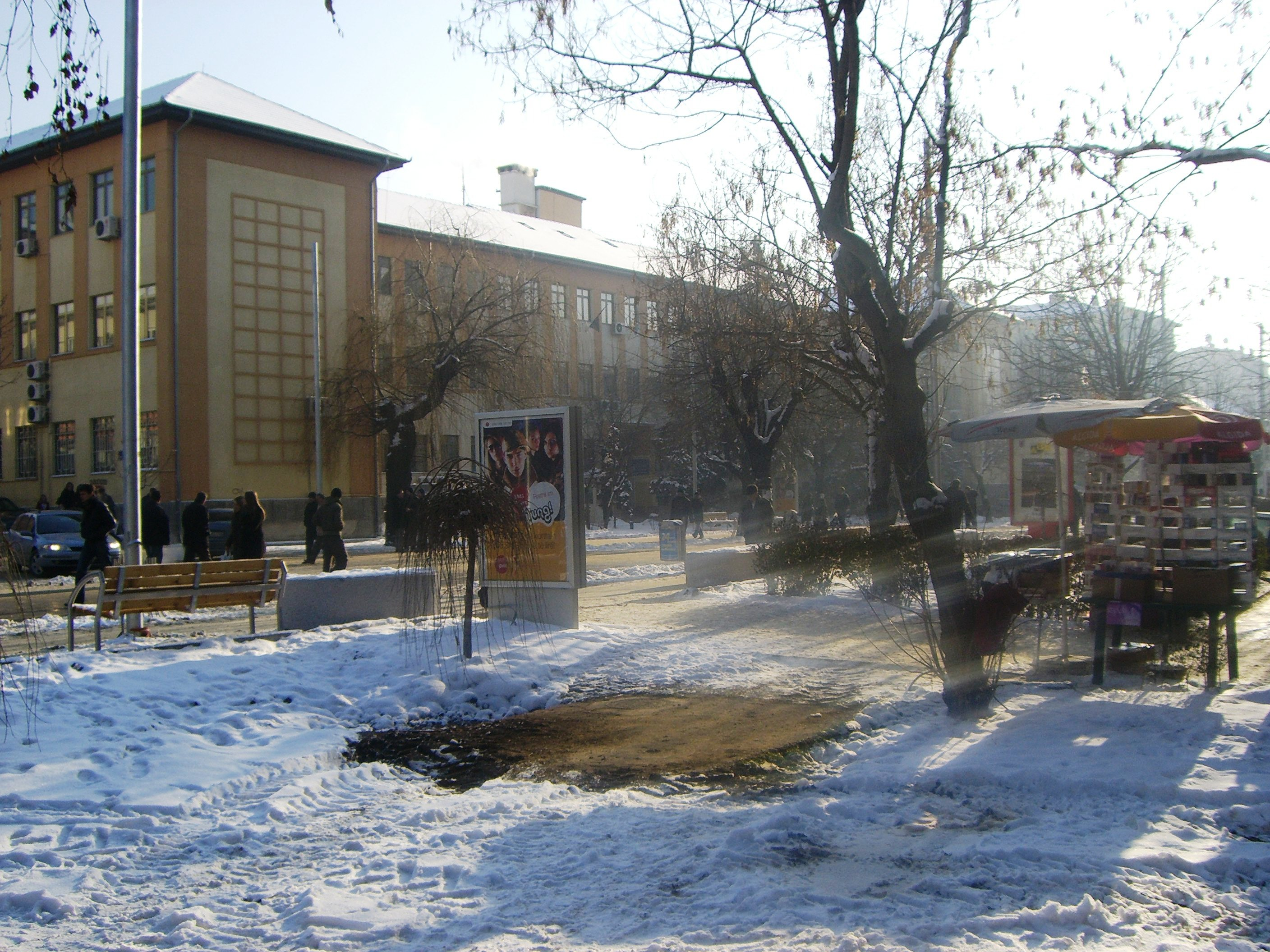 Ministry of Culture in Pristina